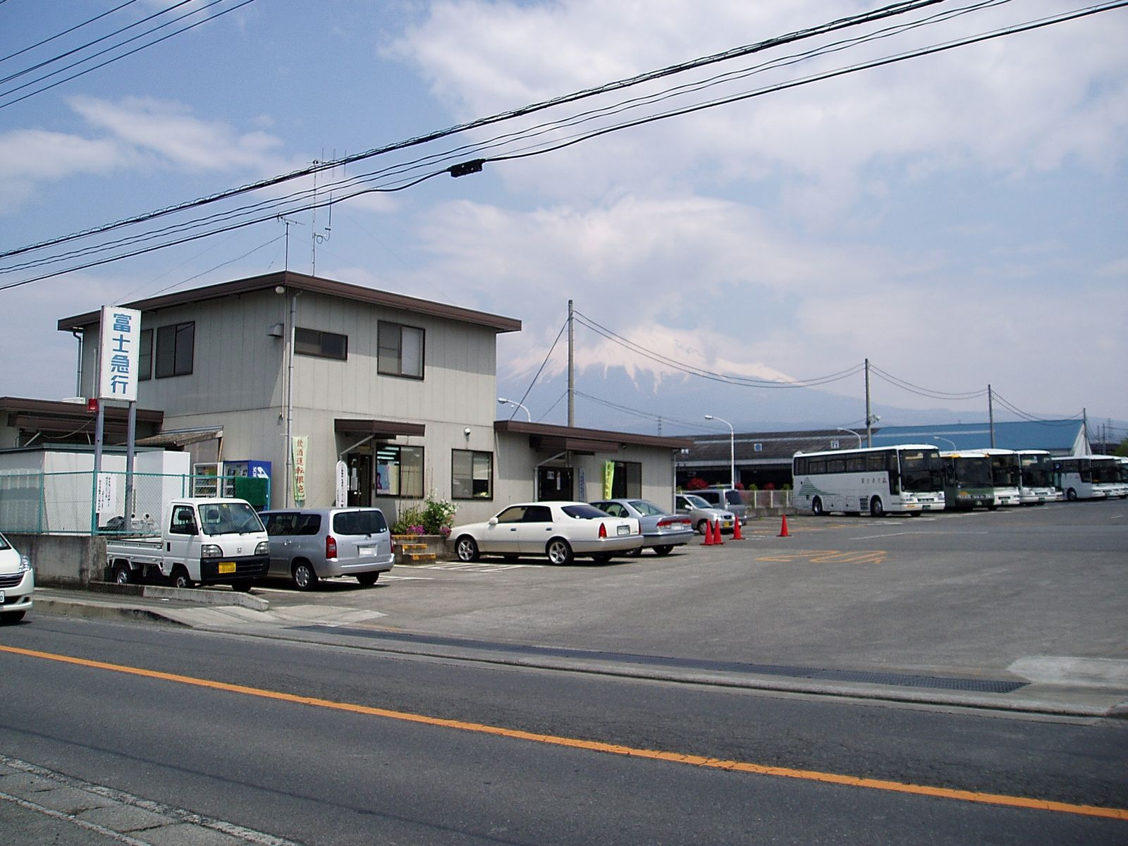 Fujikyu City Bus Takaoka Branch